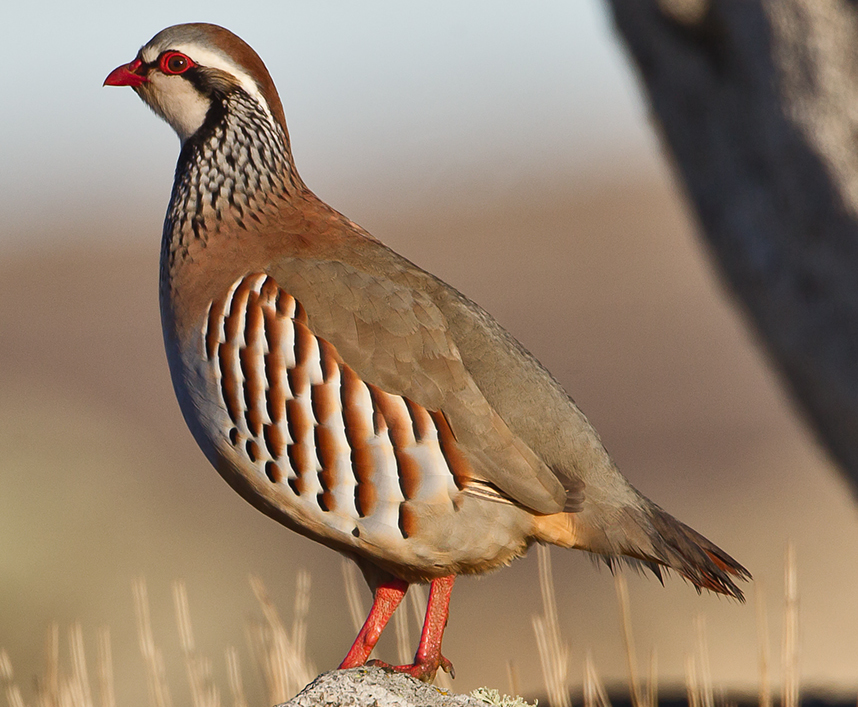 Red-Legged Partridge